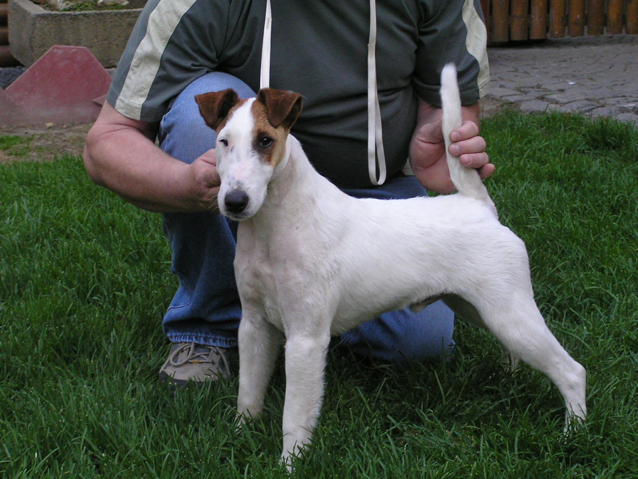 Ikaros Super Pride (*21.6.05), owner Chmelař Lubomír